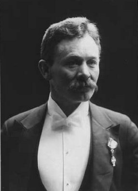 Danish sculptor Ludvig Brandstrup (1861 - 1935). Photograph from the beginning of the 20th century